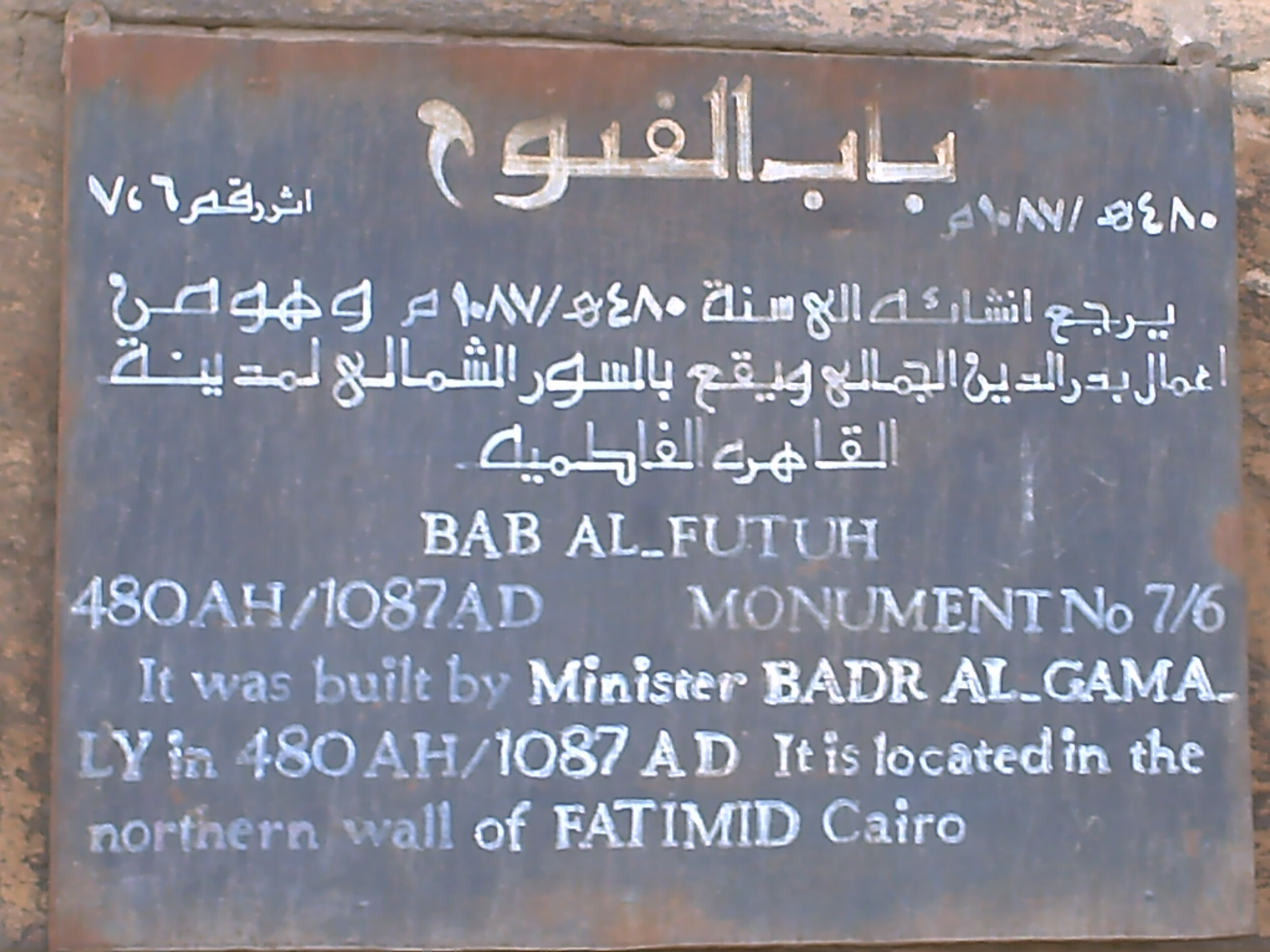 Bab al Futuh name plate